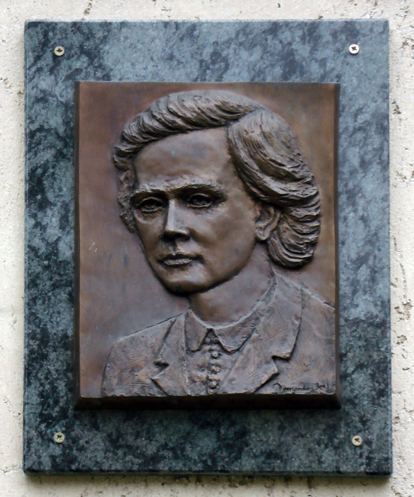 Béla Domonkos: Relief of Ilona Tóth. County Hospital, Doctor Hostel, Miskolc, Hungary